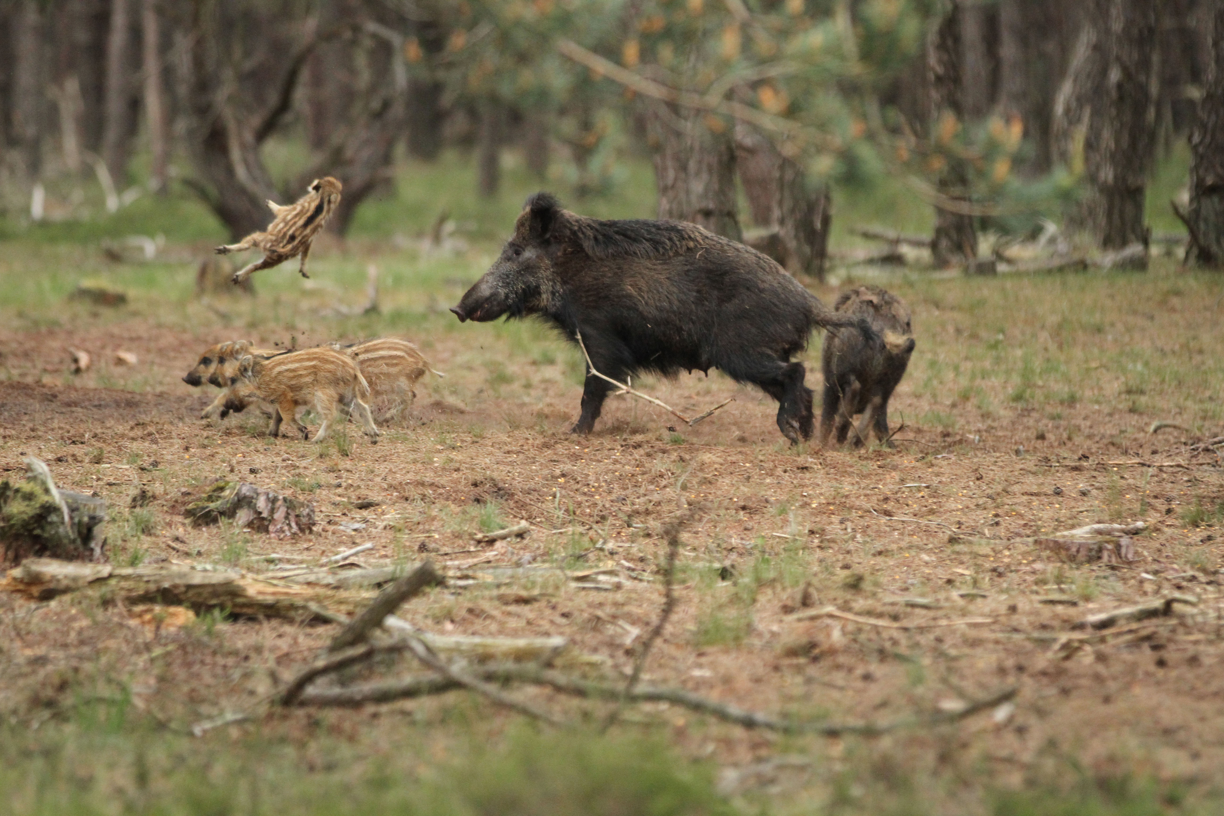 Young piggy ran before his mother. This did not benefit from this and gave the little "flying lesson". This is a photo or sound file made in Hoge Veluwe National Park in the Netherlands, with the main subject of the file in the category: animals